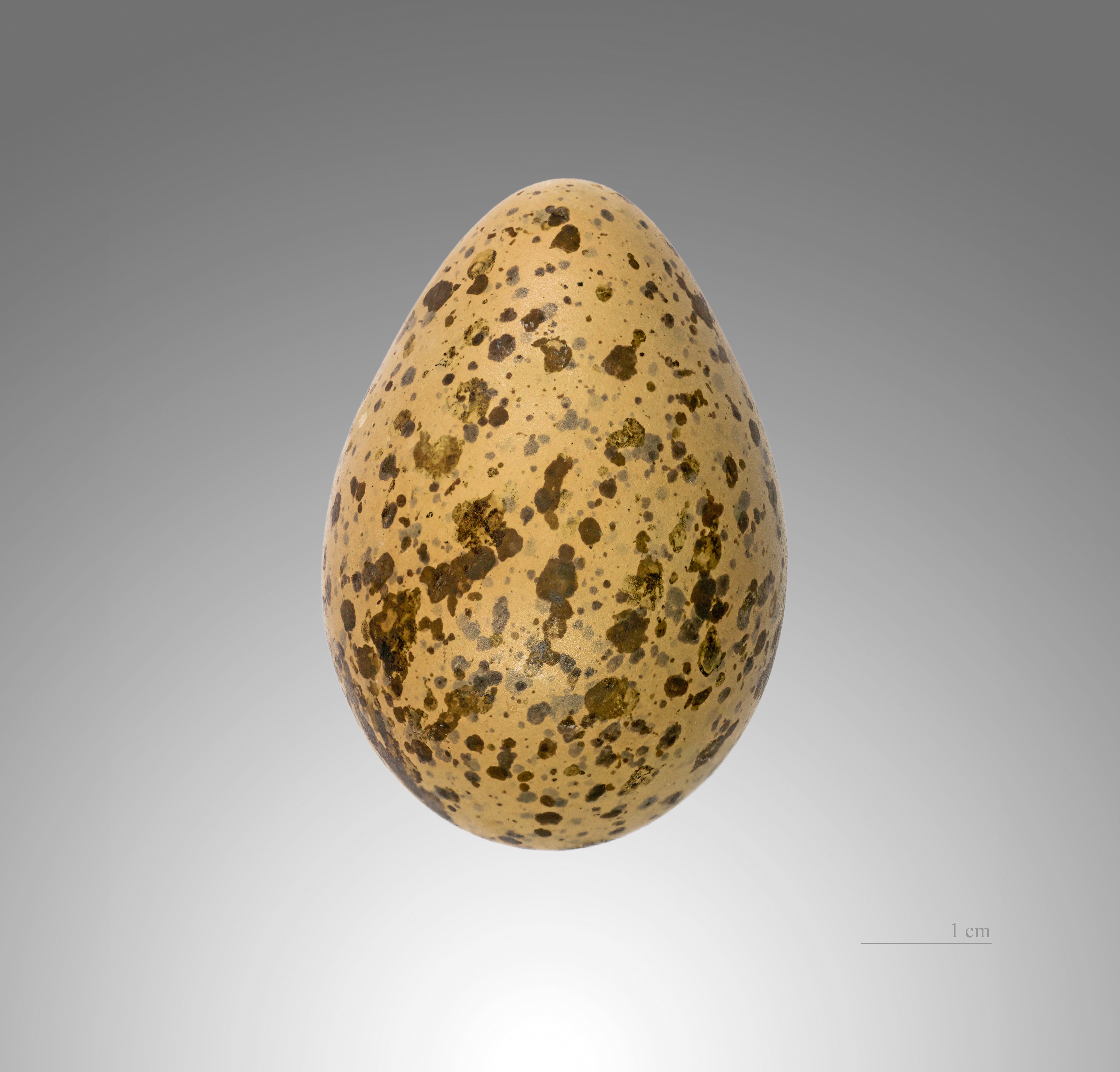 Egg of Sociable Lapwing. Collection of Jacques Perrin de Brichambaut.